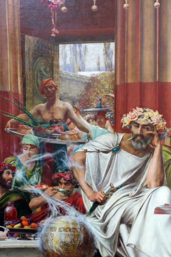 Sword of Damocles